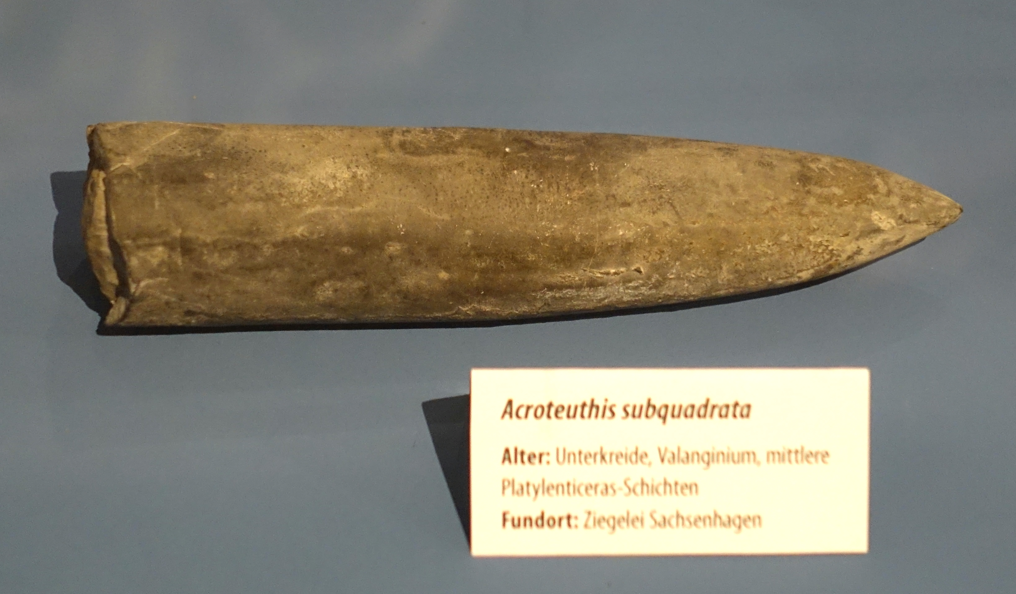 Exhibit in the Naturhistorisches Museum, Braunschweig, Germany.